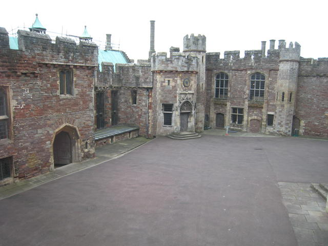 Berkeley Castle Courtyard